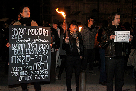 "About 100 Israelis gathered in front of Hakirya military base in Tel Aviv to protest the killing of Nabi Saleh’s Mustafa Tamimi, calling for justice and accountability."(source) Mustafa Tamimi, a 28 year old Palestinian taxi driver, was fatally shot by Israeli forces in 9 December 2011 during a weekly protest in Nabi Salih, West Bank.